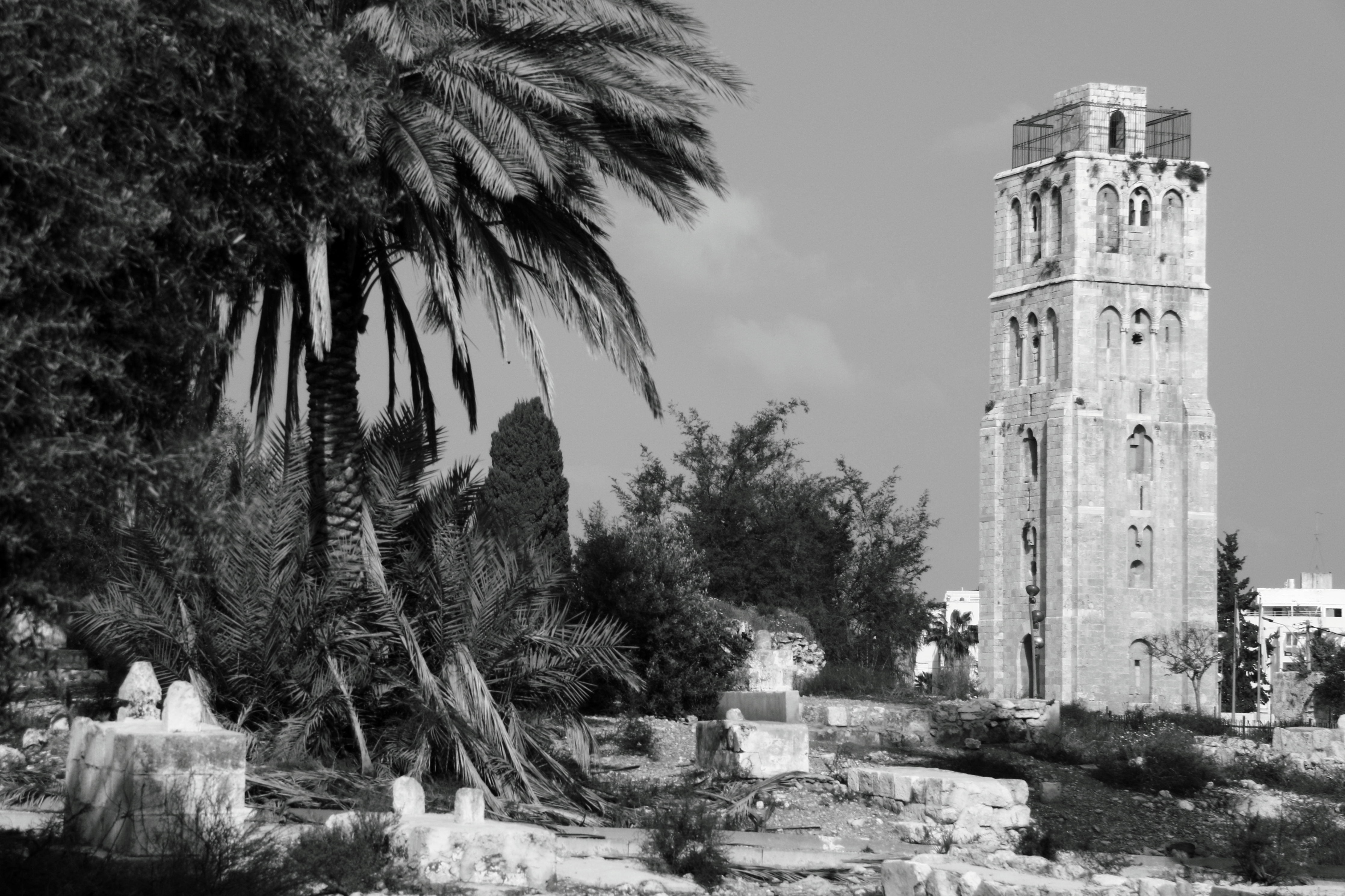 White Tower, Ramla